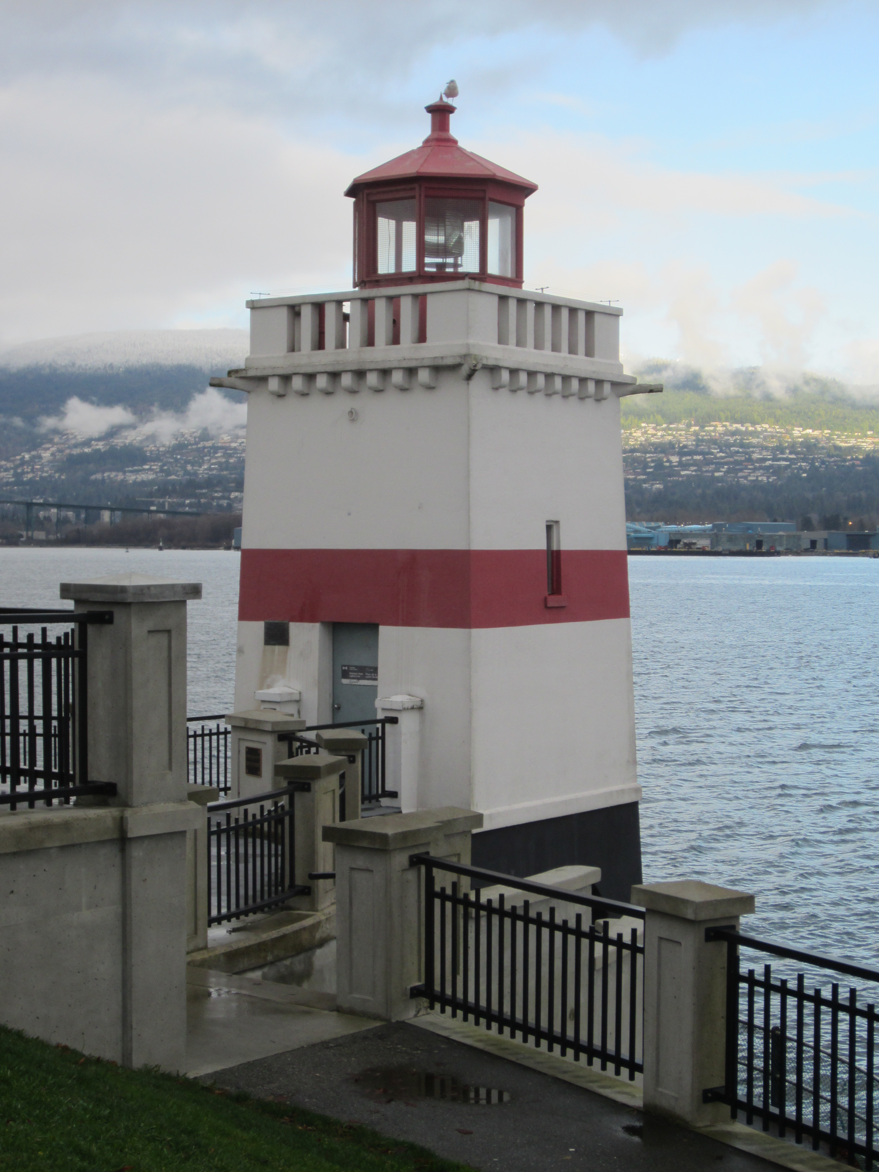 Brockton Point, Stanley Park, Vancouver, British Columbia (2012)